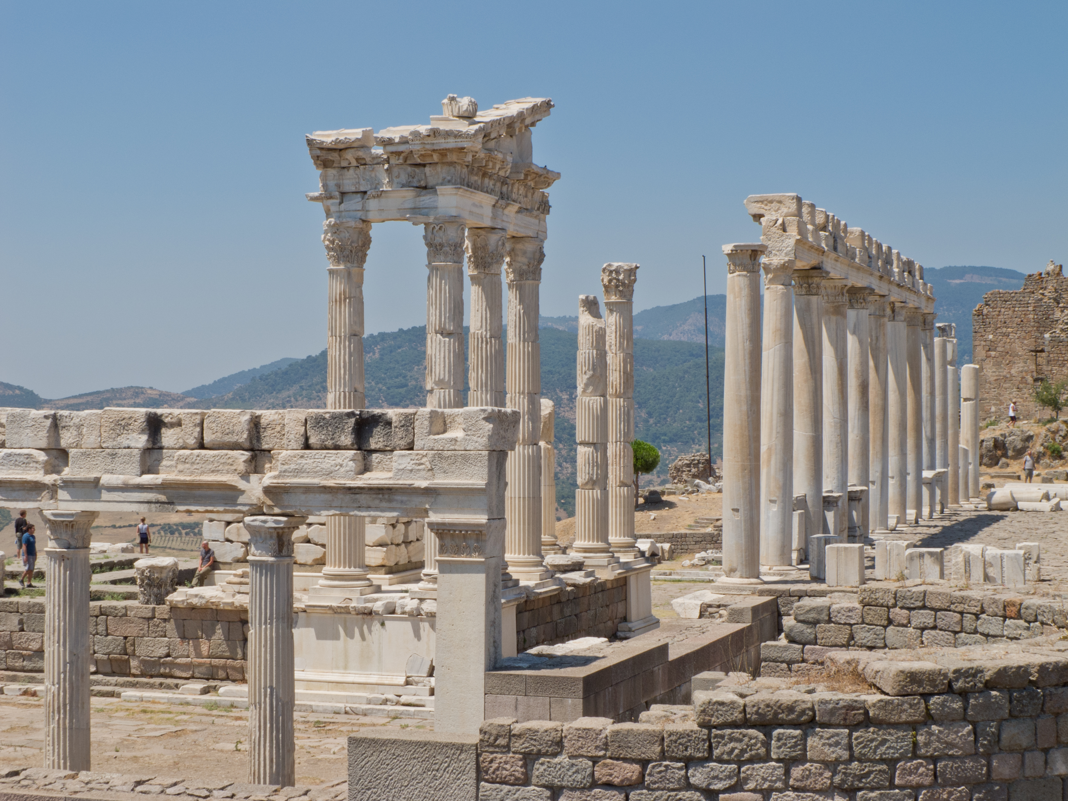 Temple of Trajan at Pergamon, in modern-day Turkey.